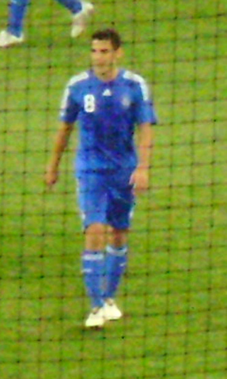 Kostas Katsouranis Greece vs Moldova